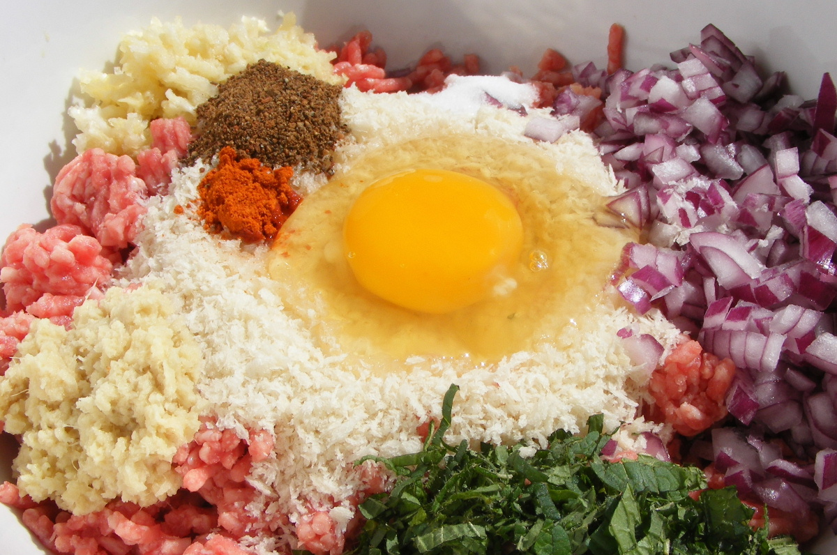 Galavat kebabs 500 gr minced lamb 1 medium red onion, chopped finely 1.5 T freshly grated ginger 3 garlics, grated 1 T chopped mint 2 t garam masala 0.5 t cayennepepper 1 t salt 1 cup panko, breadcrumbs 1 egg See my blog about Galavat Kebab